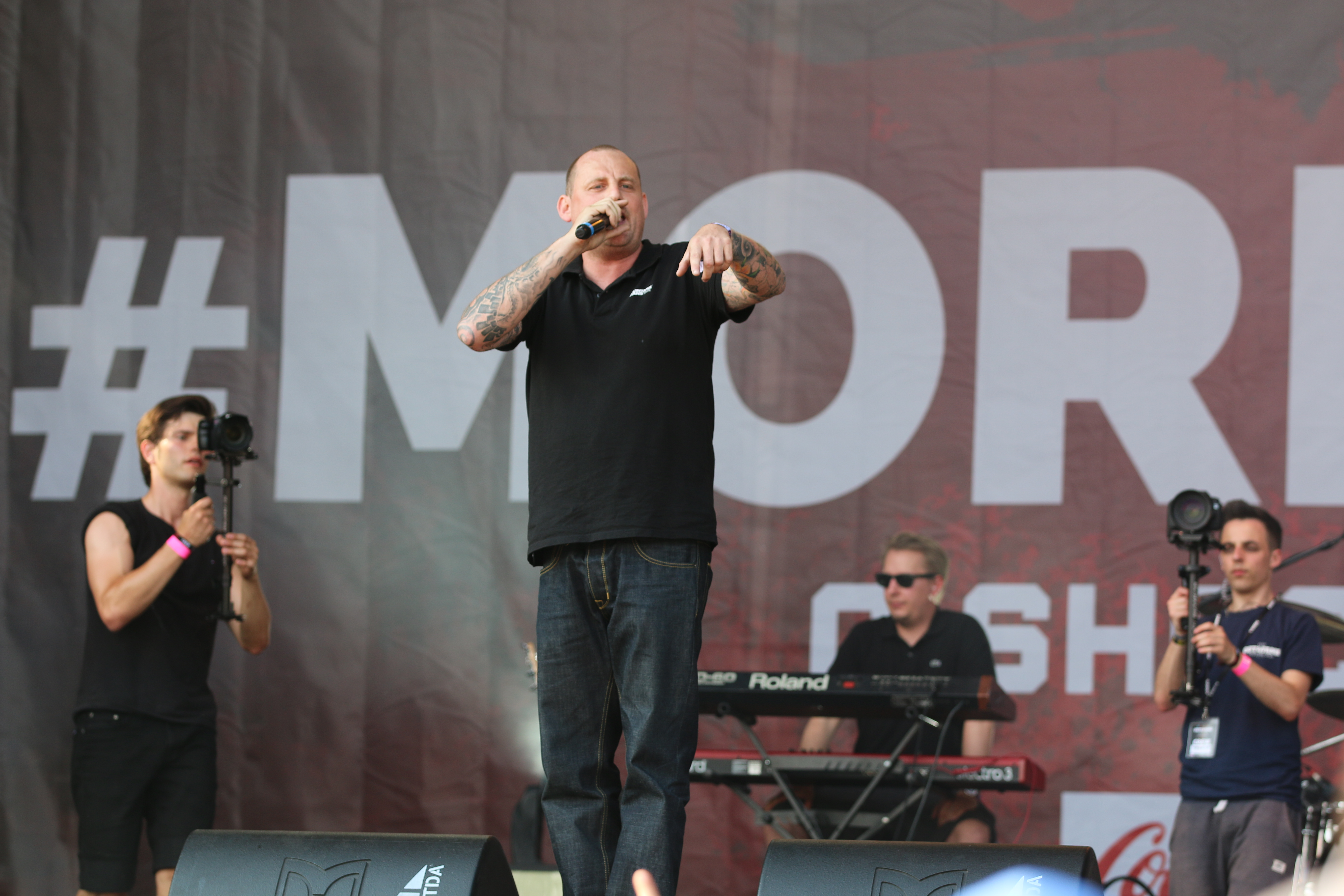 Too Strong